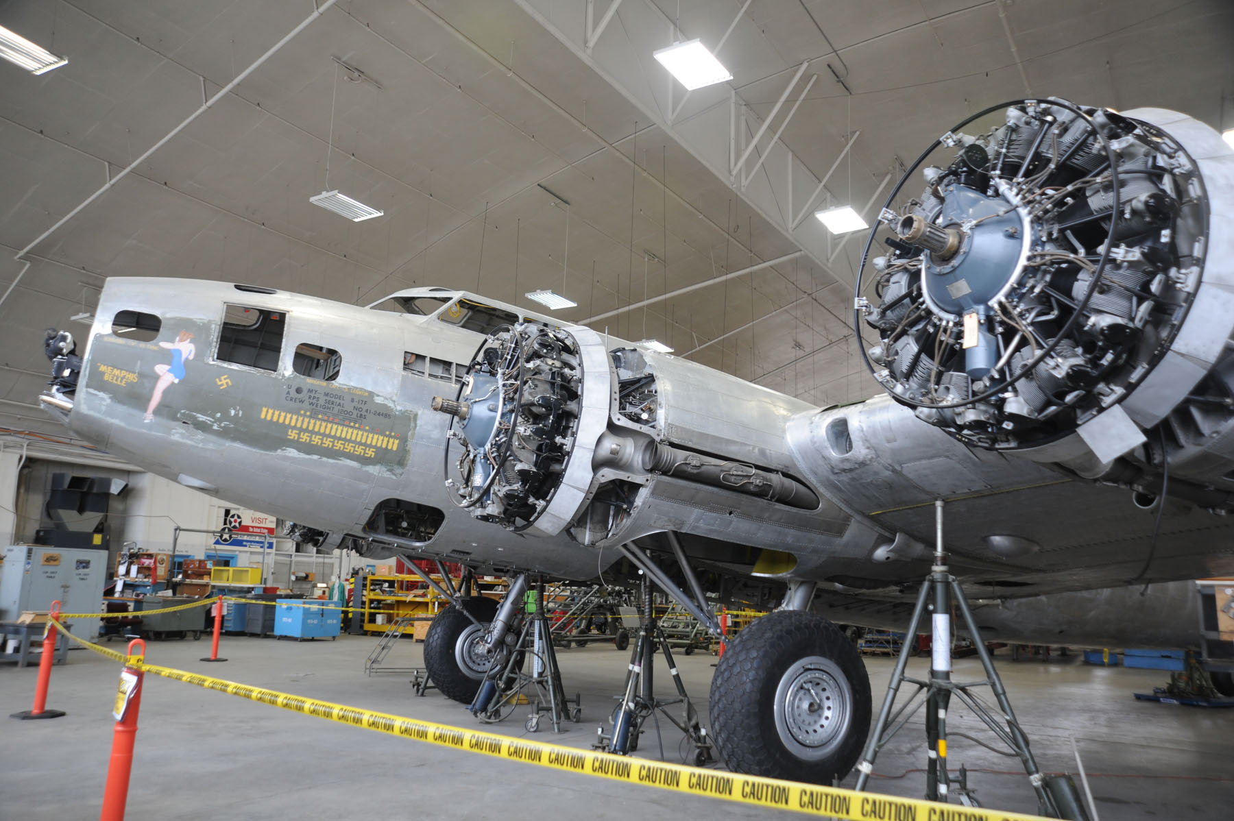 DAYTON, Ohio (12/2011) -- The B-17F "Memphis Belle" in the restoration hangar at the National Museum of the United States Air Force. (U.S. Air Force photo)